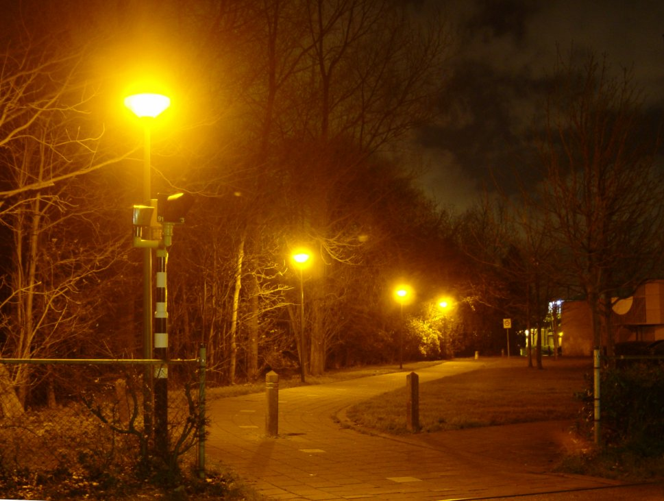 Streetlighting with low pressure sodium lamps in Schiedam (the Netherlands)